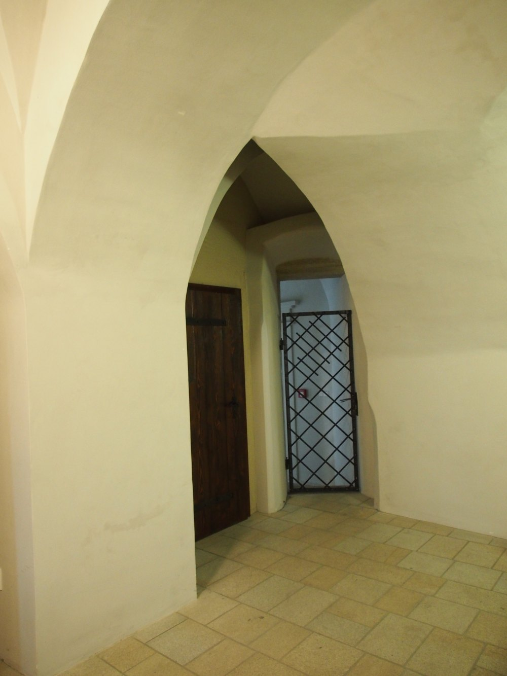 arcade